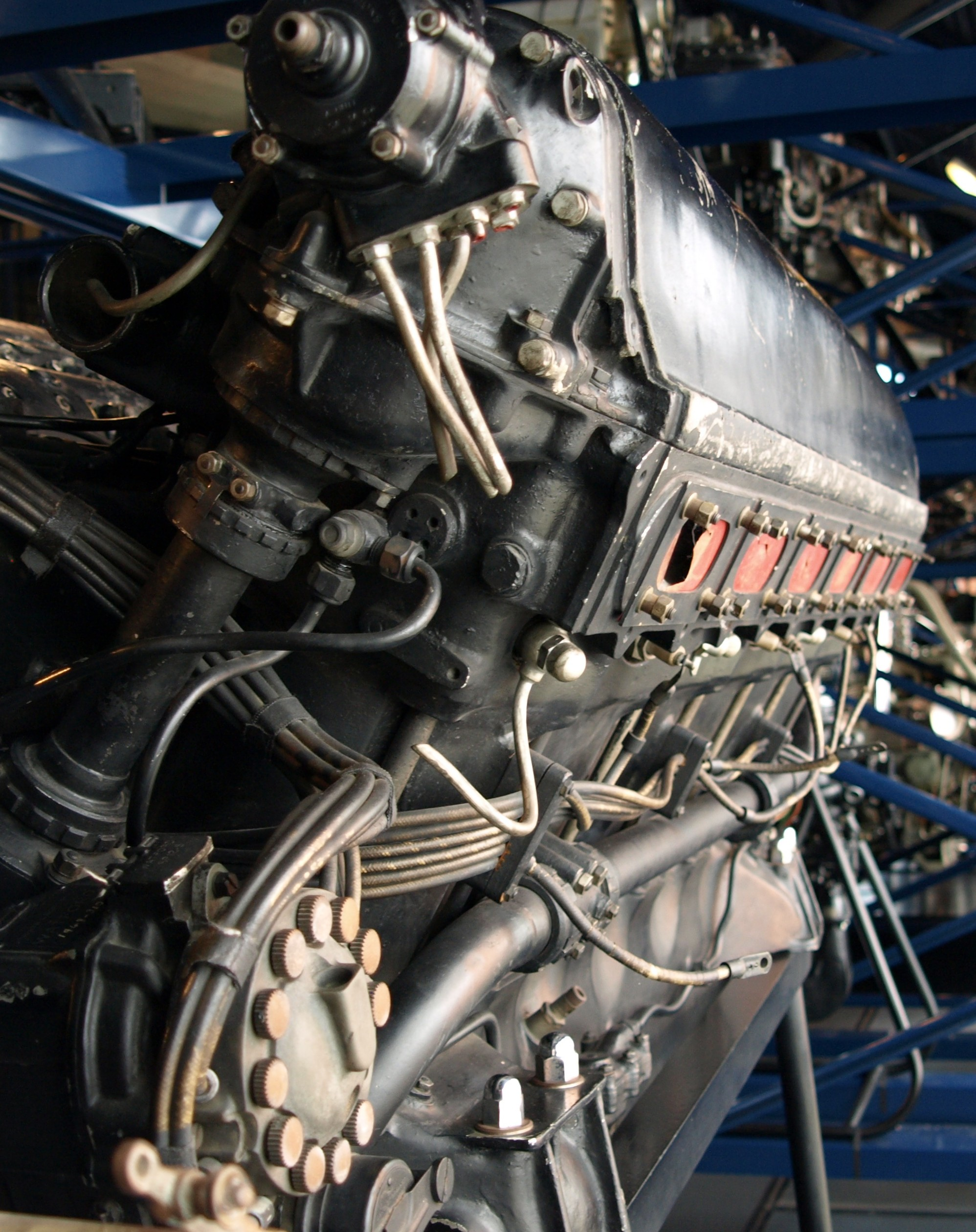 Right side view from the rear of the Rolls-Royce R on display at the London Science Museum